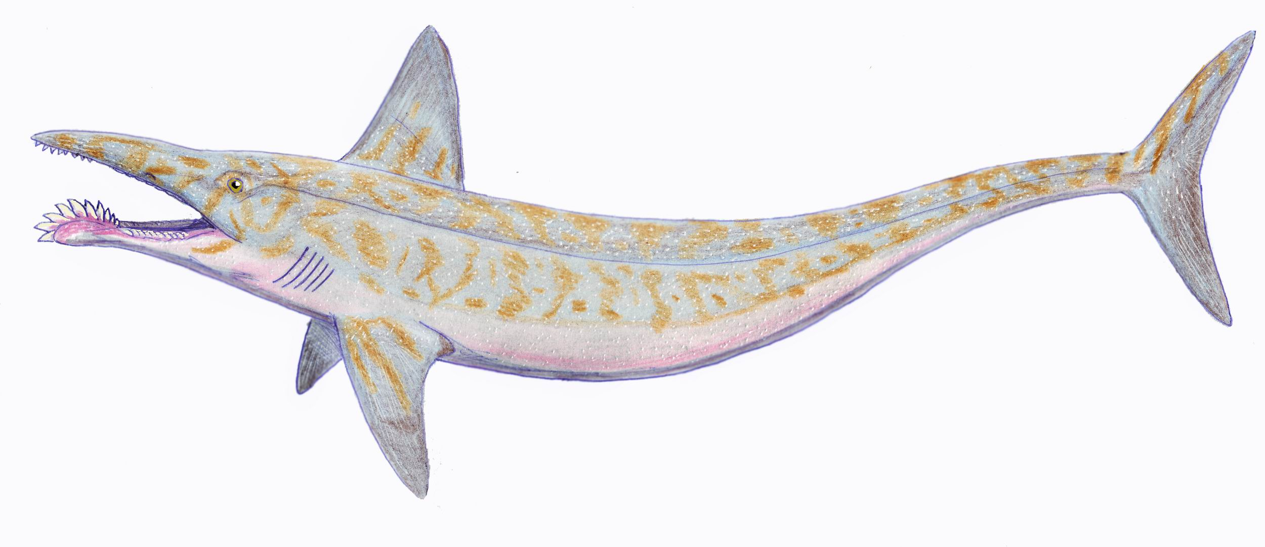 Parahelicoprion clerci - Early Permian (Artinskian) of Krasnoufimsk (Ural). Traditional reconstruction.